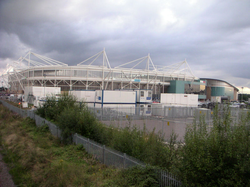 Photograph of the new Ricoh Arena, Coventry, England. Taken from the railway foot bridge near to the stadium. Author: Keith Jones, Warrington, UK. Taken: 29th August 2005 Coventry vs. Southampton